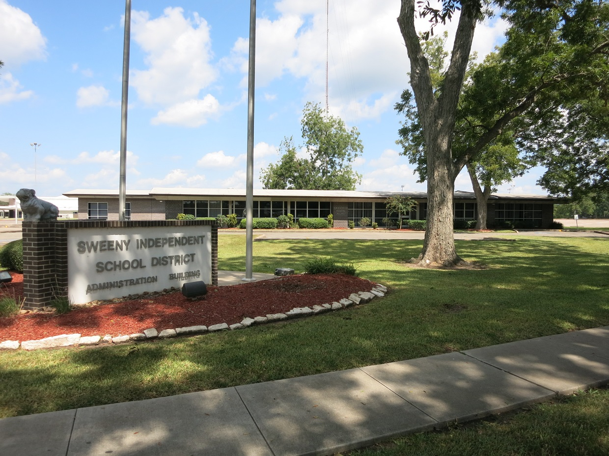 Photo shows the Sweeny Independent School District Administration Building at 1310 N Elm St, Sweeny, TX 77480. View is toward the east.